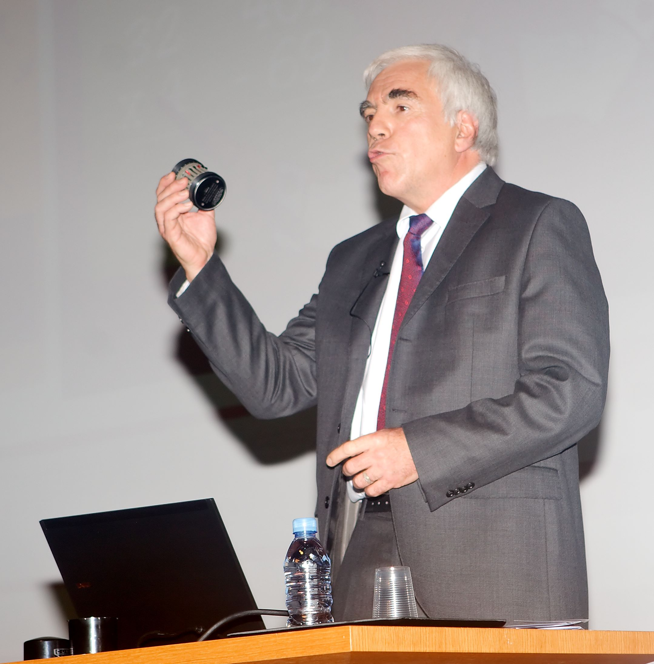 Gérard Berry, professor of computing sciences at the Collège de France, during his opening lesson on November 19, 2009, with a Curta mechanical calculator.